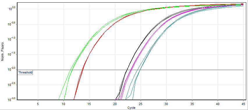 SYBR Green fluorescence chart for five samples, each having three replicates, which is a result of quantitative PCR (qPCR).